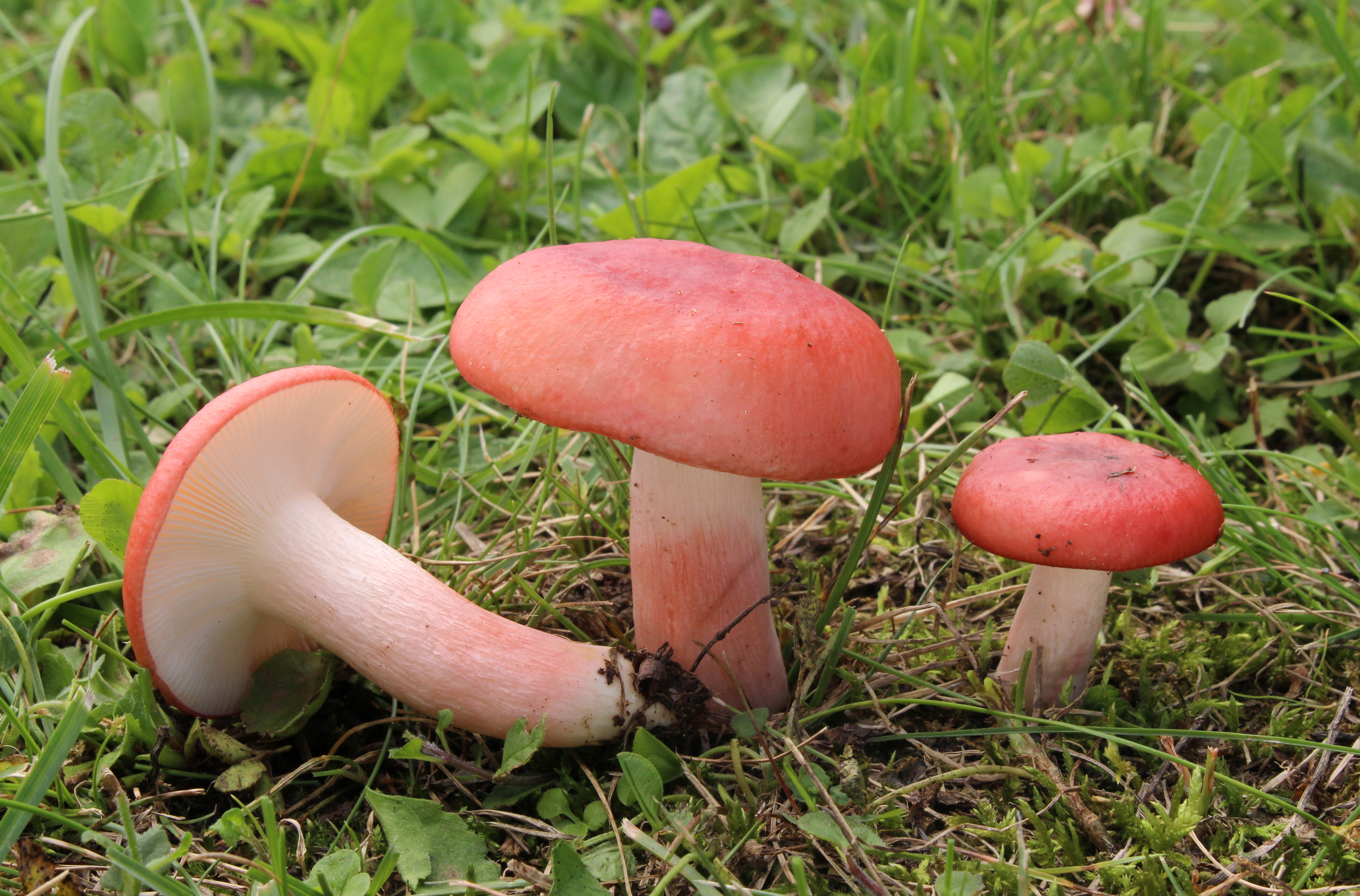 Bloody Brittlegill, Russula sanguinaria, Family: Russulaceae, Location: Germany, Schelklingen, Hausen